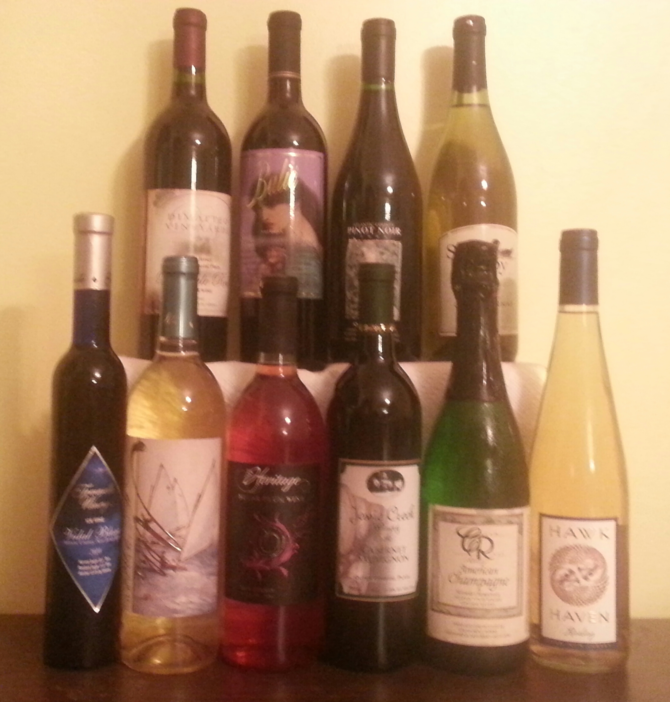 This is an assortment of New Jersey wines. New Jersey's 48 wineries produce wine from more than 90 varieties of grapes, and from over 25 other fruits. Bottom row (l. to r.): Tomasello Winery Vidal Blanc Ice Wine, Alba Vineyard Mainsail White, Heritage Vineyards Sugar Plum Wine, Jessie Creek Winery Cabernet Sauvignon, Cream Ridge Winery American Champagne, Hawk Haven Vineyard & Winery Riesling. Top row (l. to r.): DiMatteo Vineyards Pasquale Red, Balic Winery American Pomegranate Wine, Sylvin Farms Winery Pinot Noir, Silver Decoy Winery Black Feather Chardonnay.